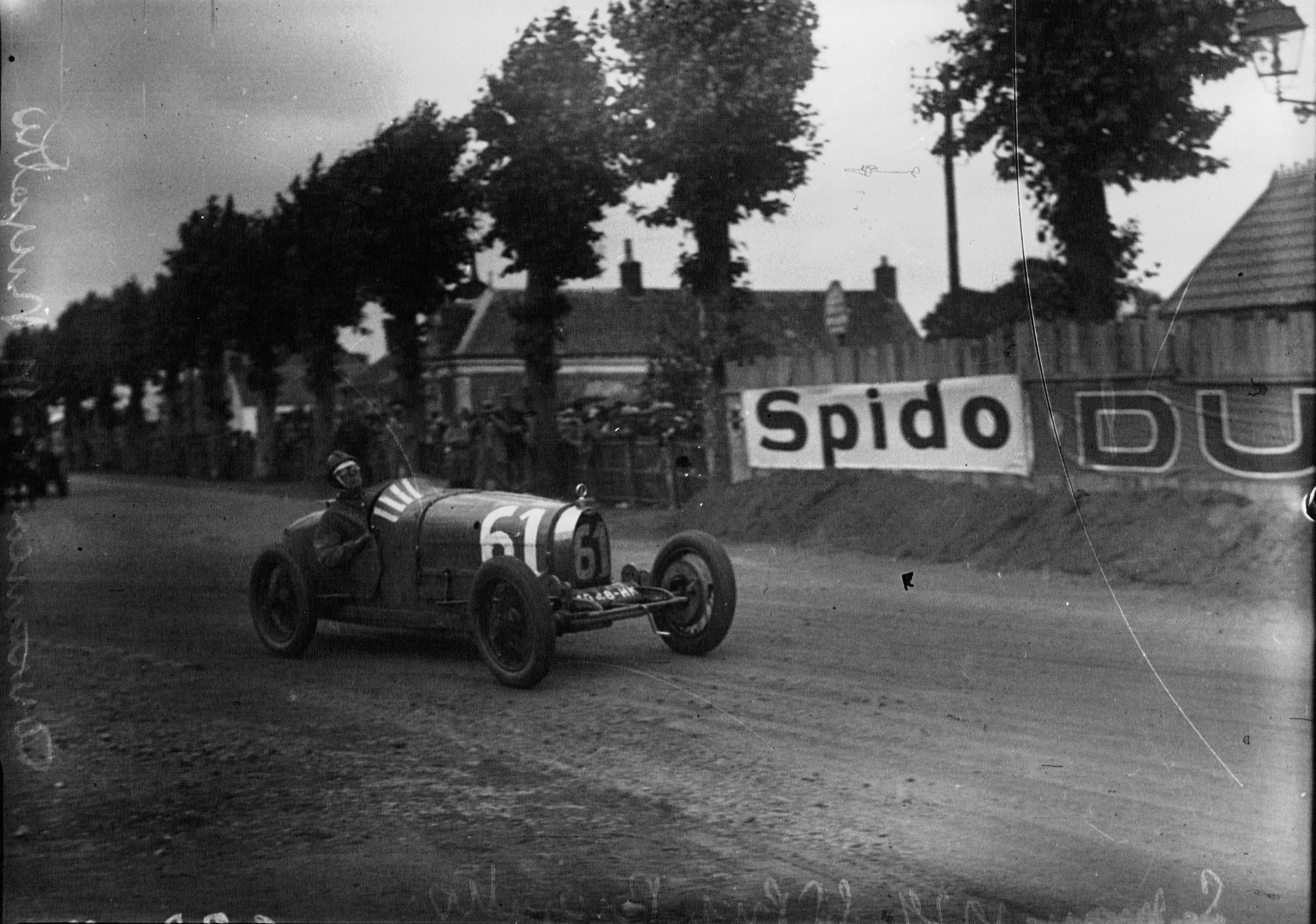 Derancourt at the 1929 Bugatti Grand Prix